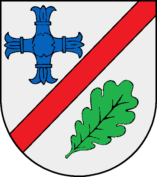 Coat of arms of the municipality Bilsen in Schleswig-Holstein, Germany.